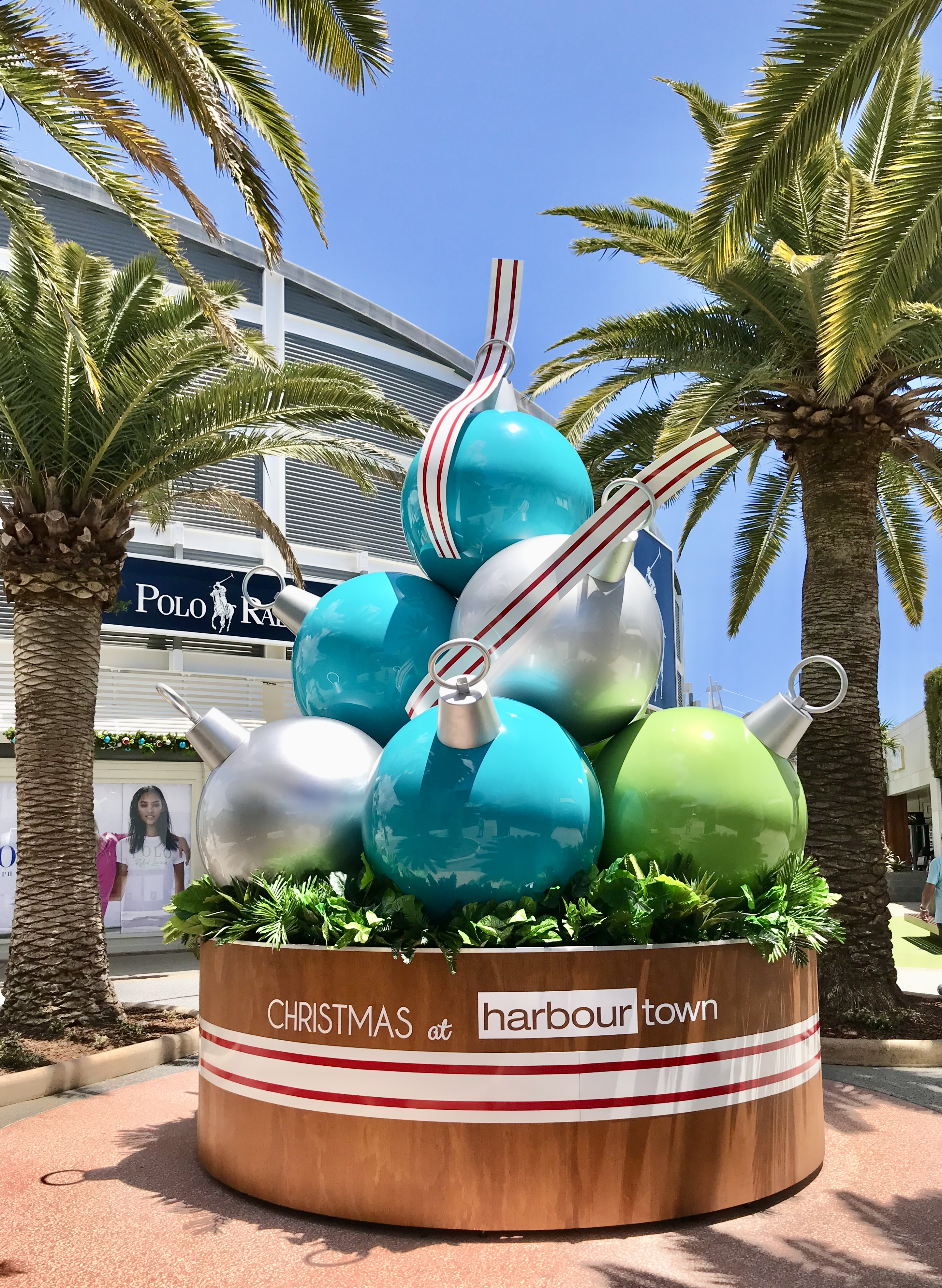 Christmas 2017 in Harbour Town Shopping Centre, Queensland Australia